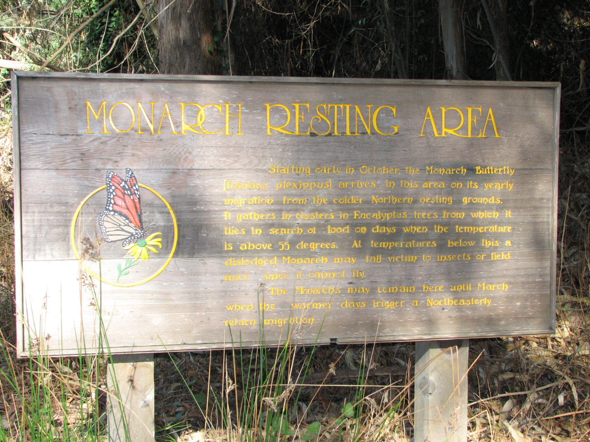 Copyright AlphaGeek Published under